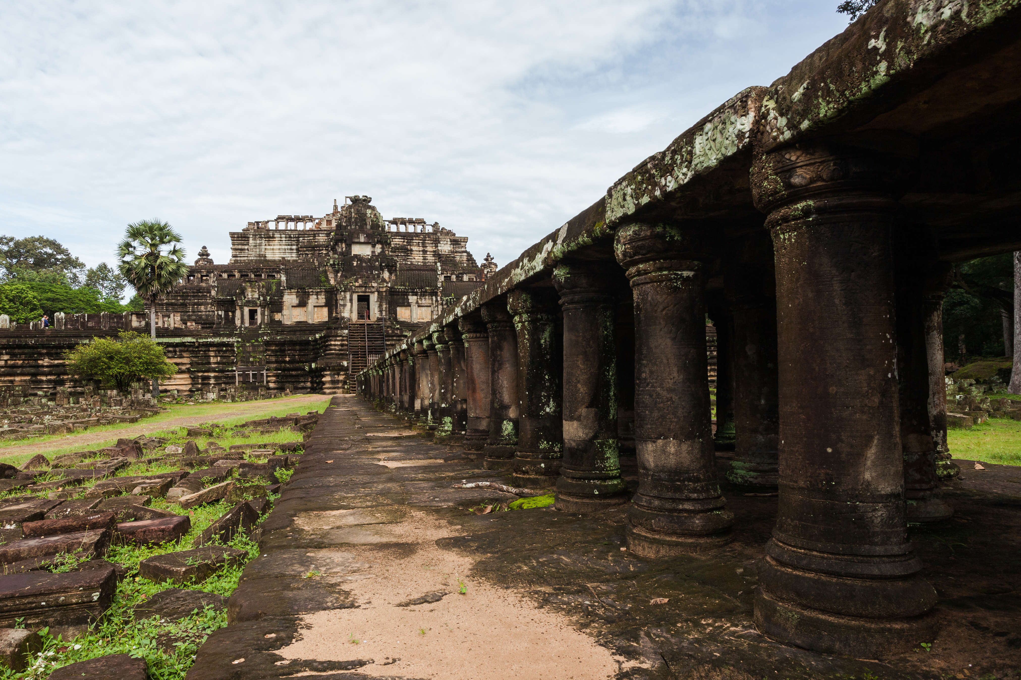 Baphuon, Angkor Thom, Cambodia